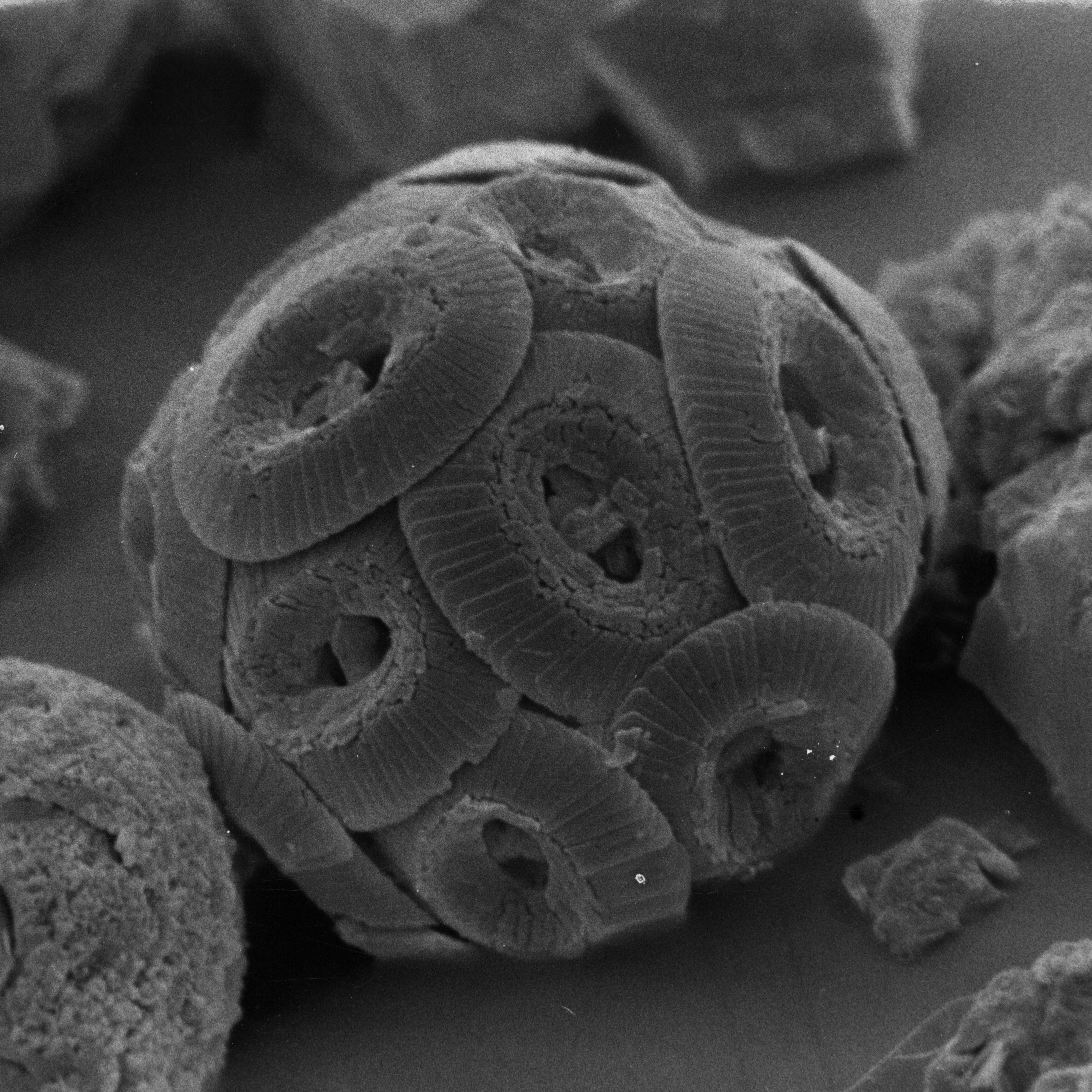 Coccolithus pelagicus, ab. 50 µm ø